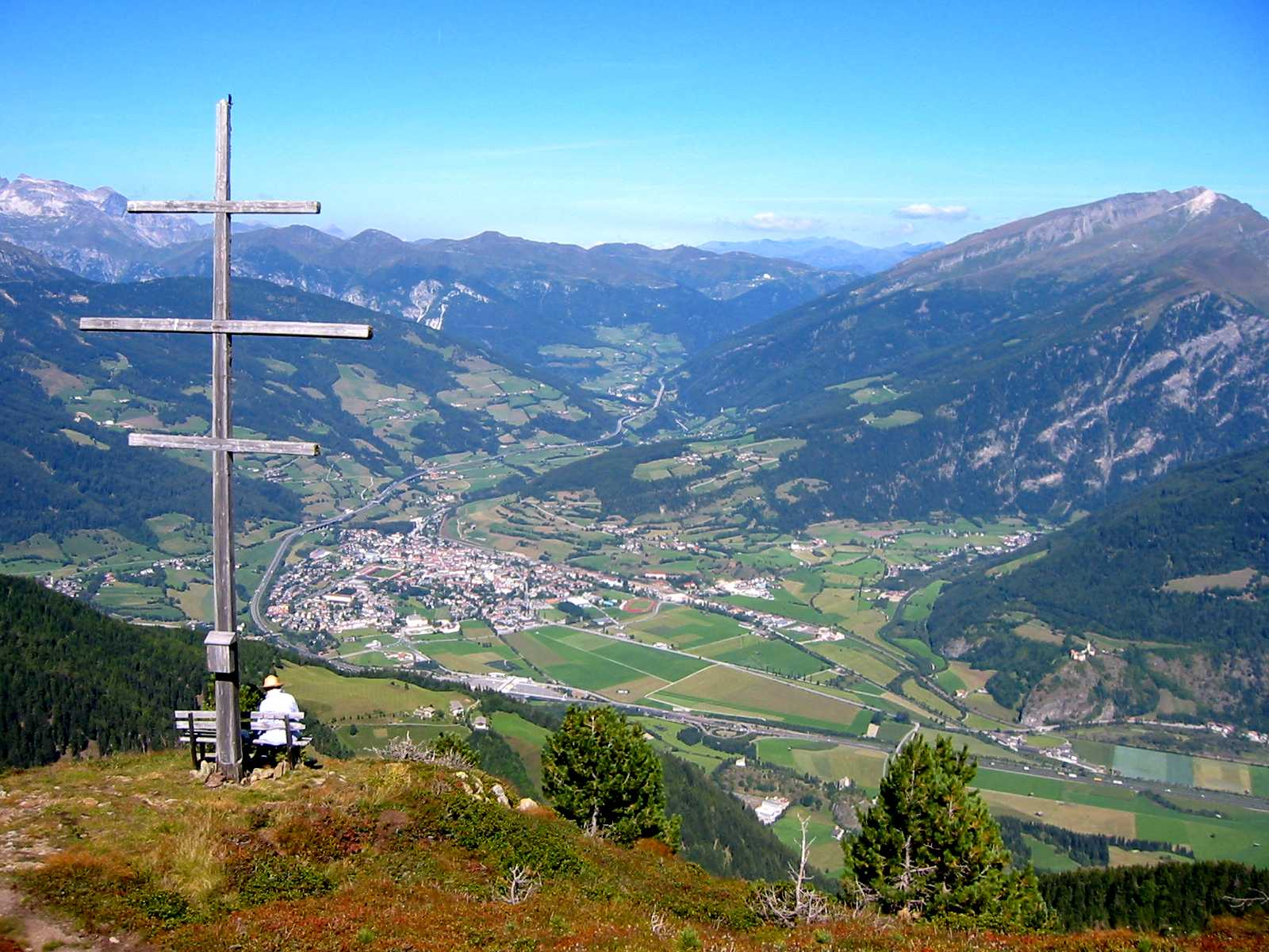 Sterzing as seen from the Elzenbaumer Wetterkreuz